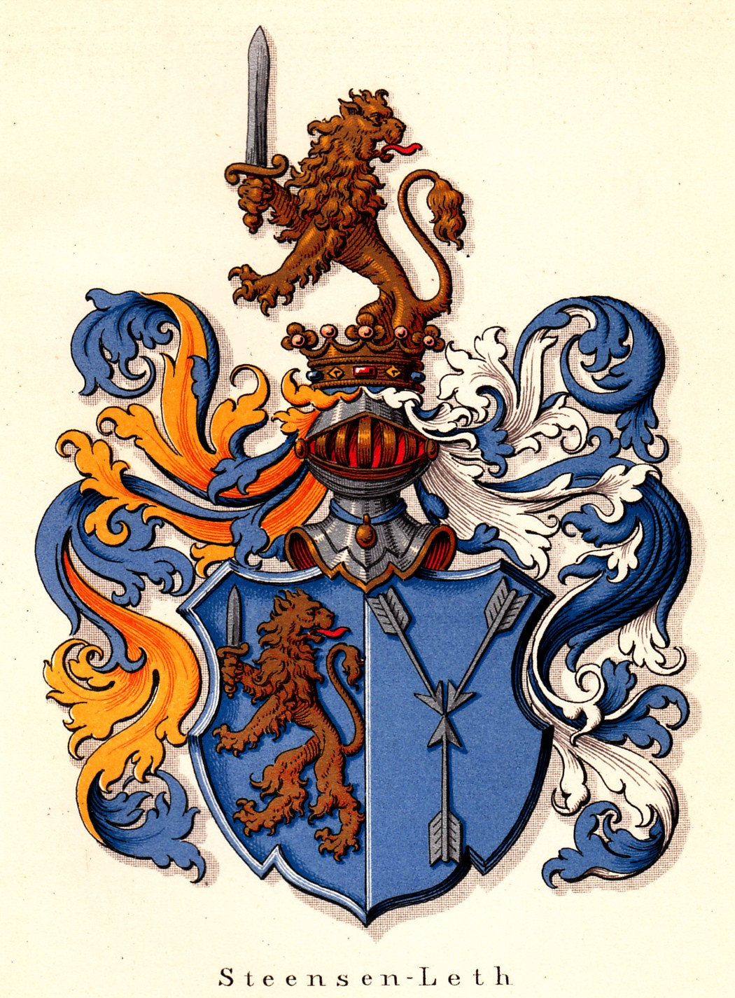 Coat of arms of the Steensen-Leth family